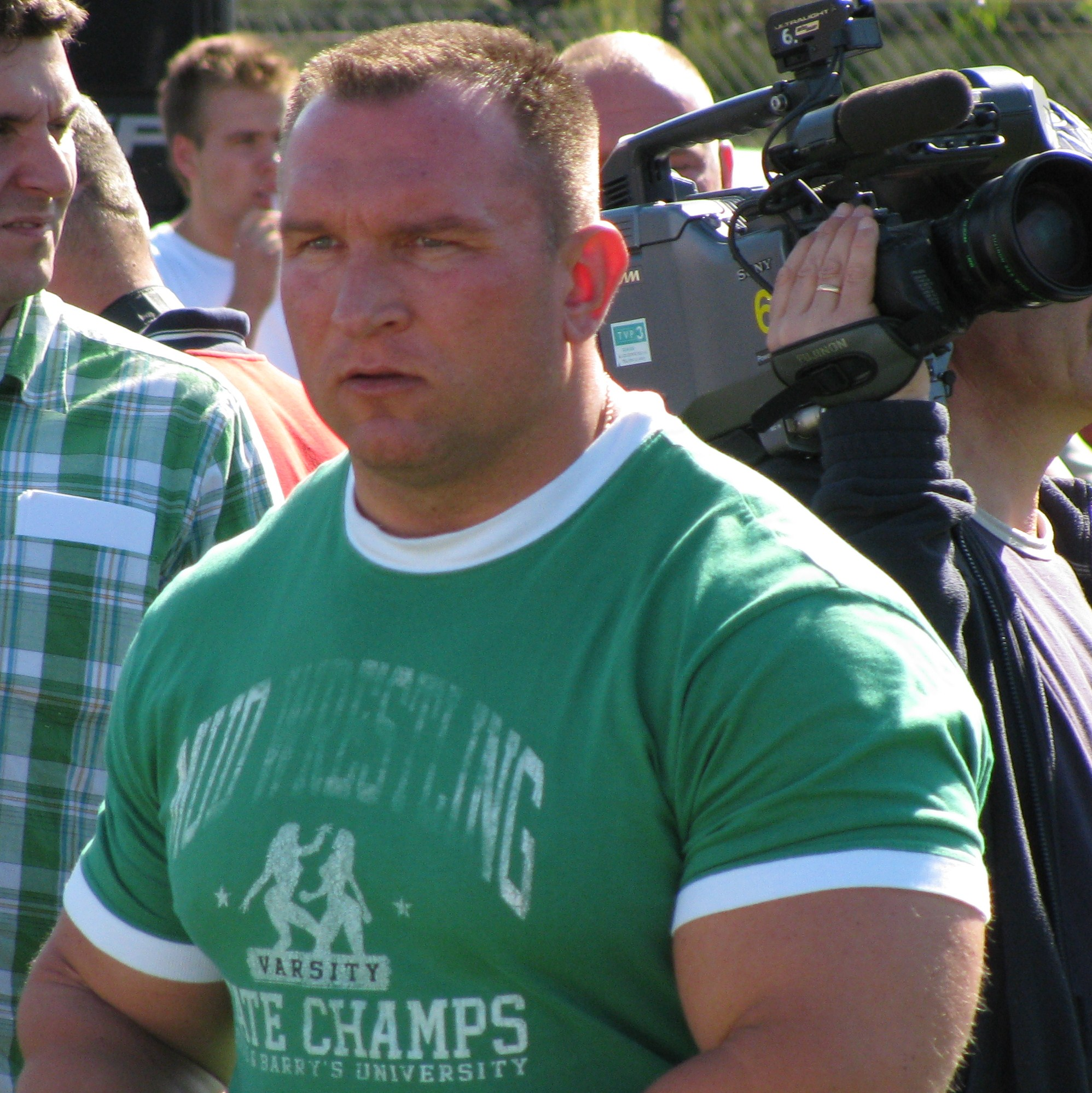 Jaroslaw Dymek - a strength athlete from Poland